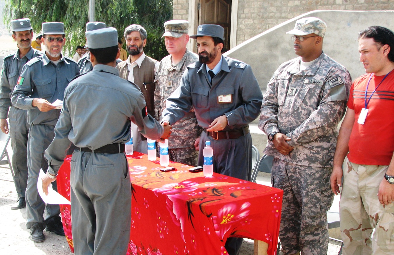 Original caption: "A new Afghan National Auxiliary Police officer receives his diploma from Gen. Abdul Jalal, Konar province’s chief of police, at a graduation ceremony on Camp Wright, in Konar province, Afghanistan. Courtesy photo